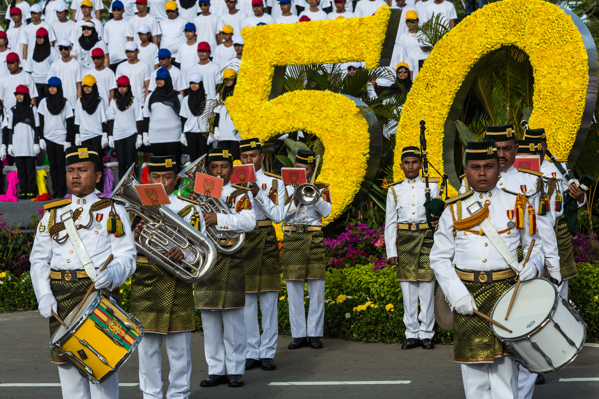 Kota Kinabalu, Sabah, Malaysia: Celebrations of Hari Merdeka 2013 in Likas on August 31, 2013